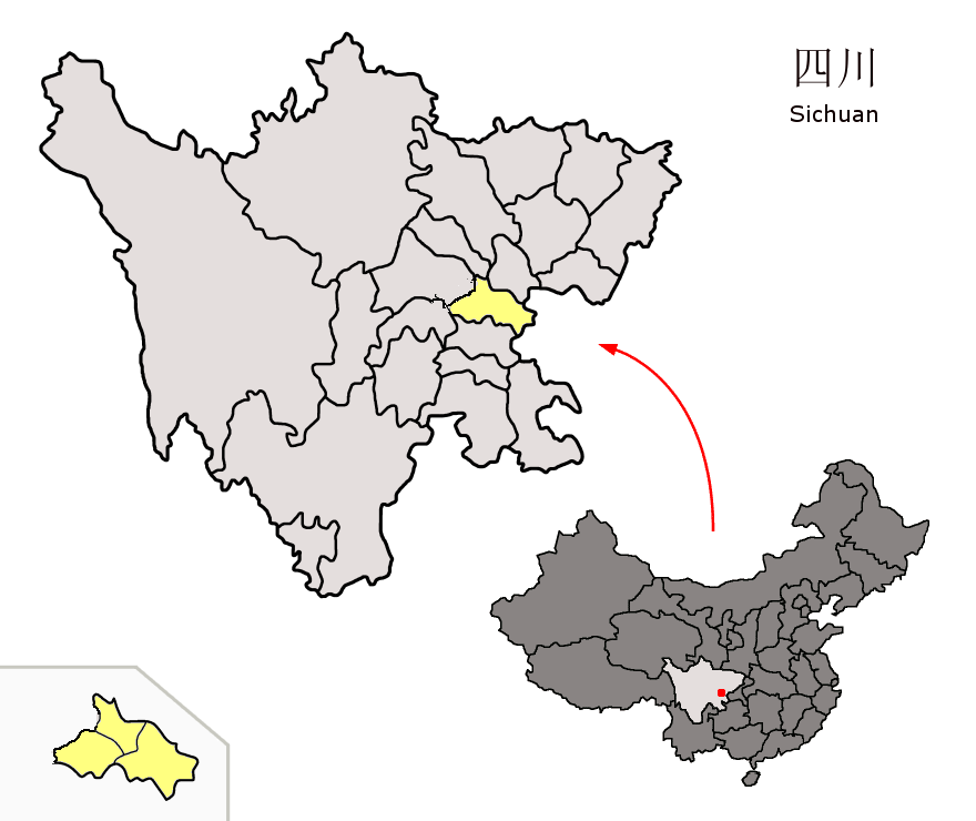 Location of Ziyang Prefecture (yellow) within Sichuan province of China Map drawn in october 2007 using various sources, mainly : Sichuan province administrative regions GIS data: 1:1M, County level, 1990 Sichuan Counties map from